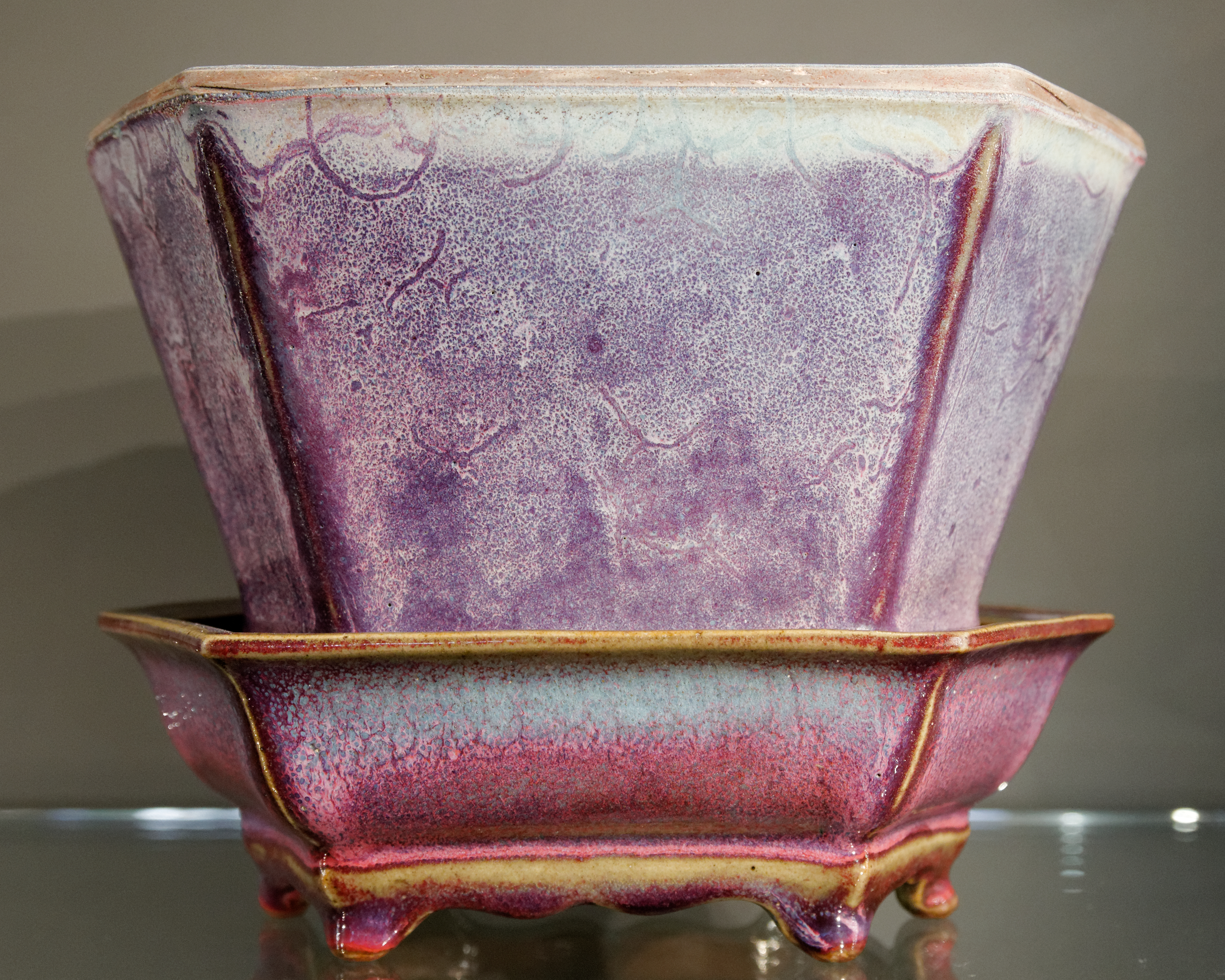 Hexagonal flower-pot and stand, ‘Official’ Jun ware.